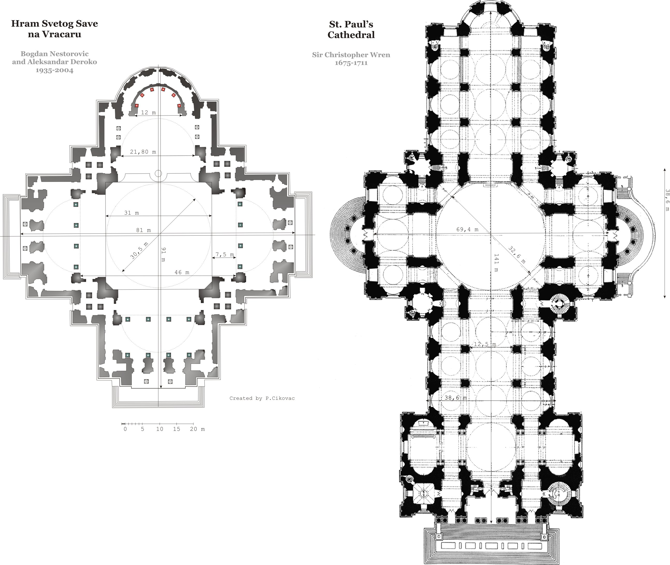 Greek and Latin cross - Temple of Saint Sava and St Paul's Cathedral